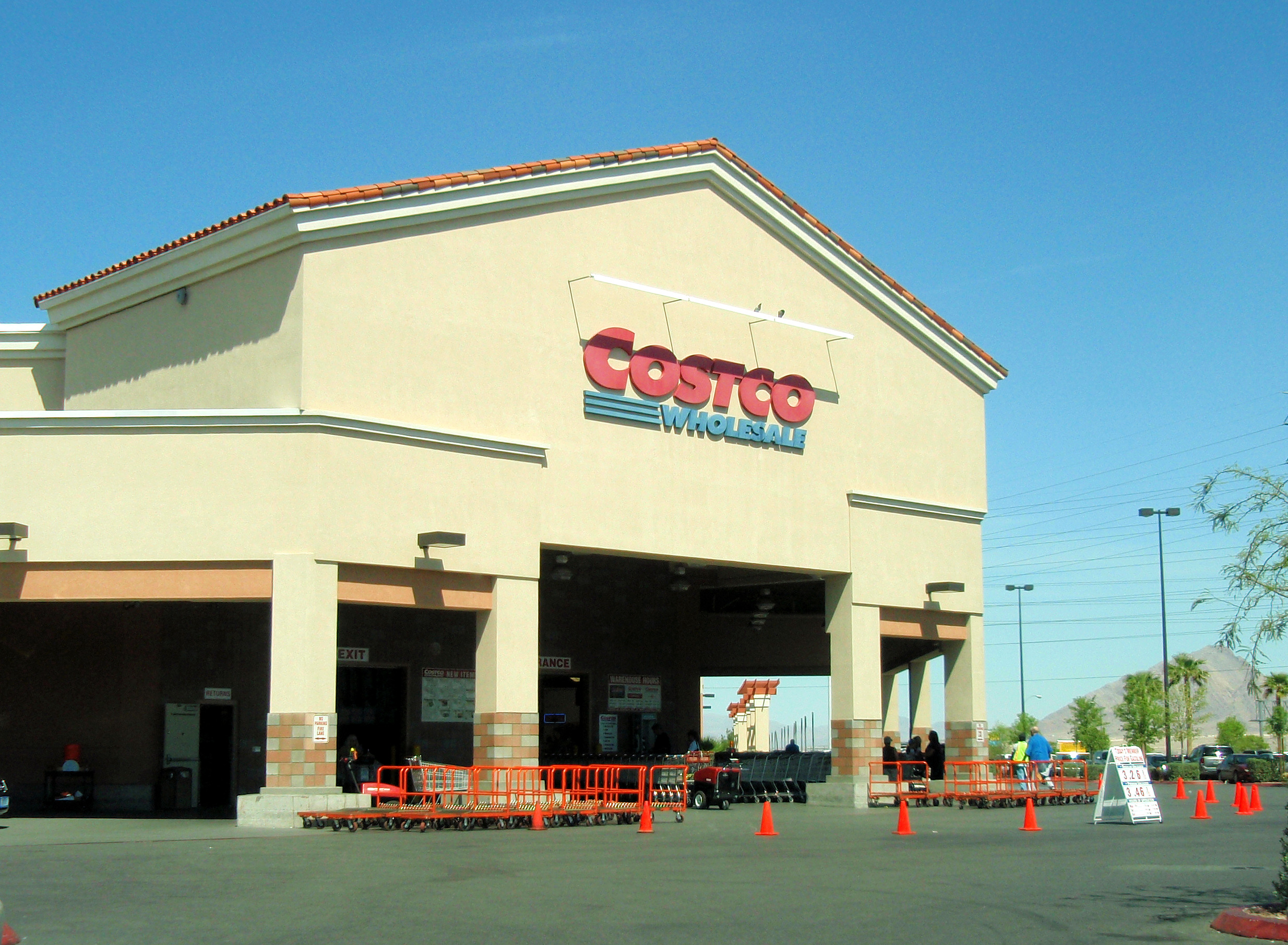 Entrance to the Costco warehouse store in Henderson, Nevada. Photographed by user Coolcaesar on March 31, 2008.